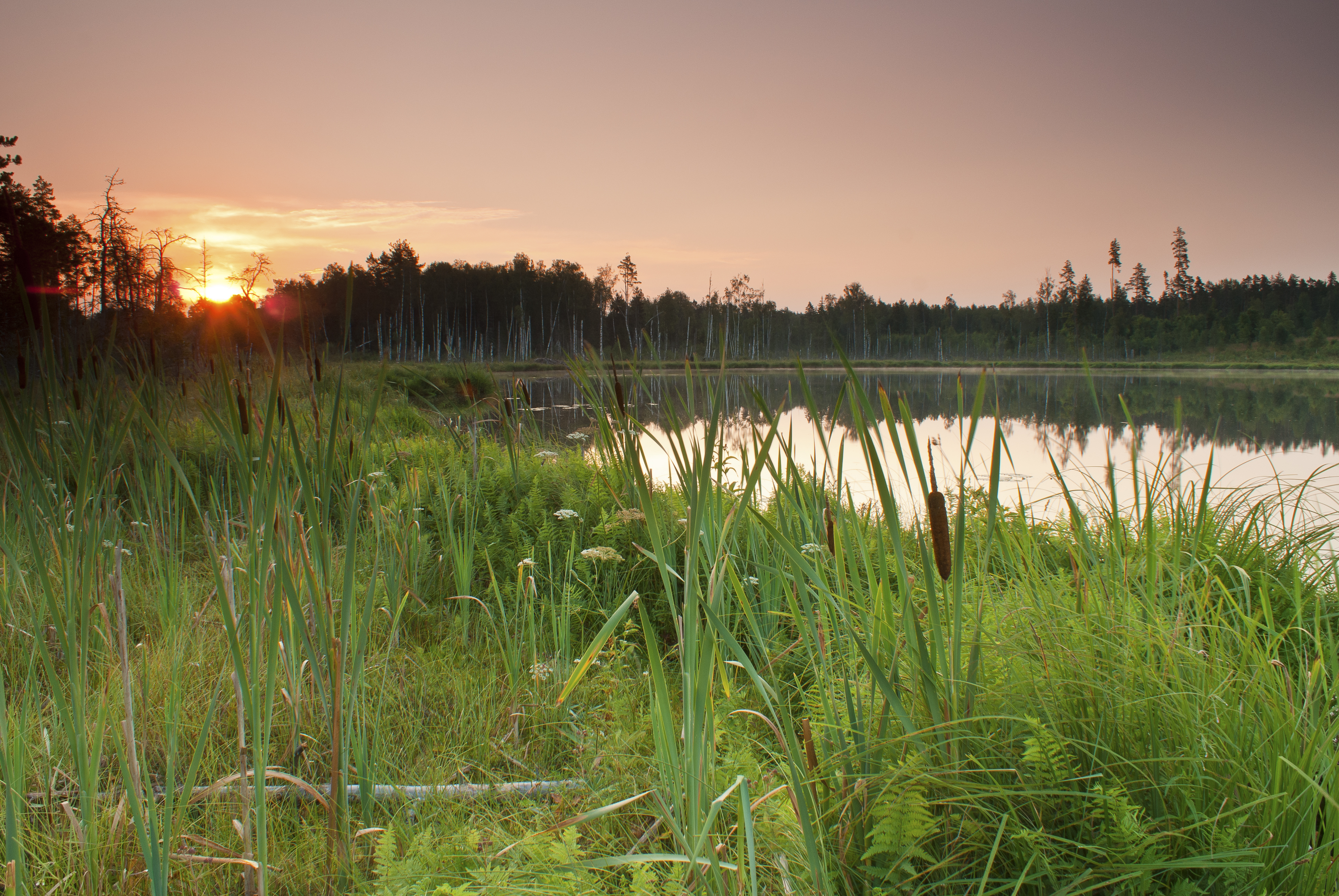 August sunrise at lake Alatsi in Teringi bog in the southern part of Viljandi County, Estonia.